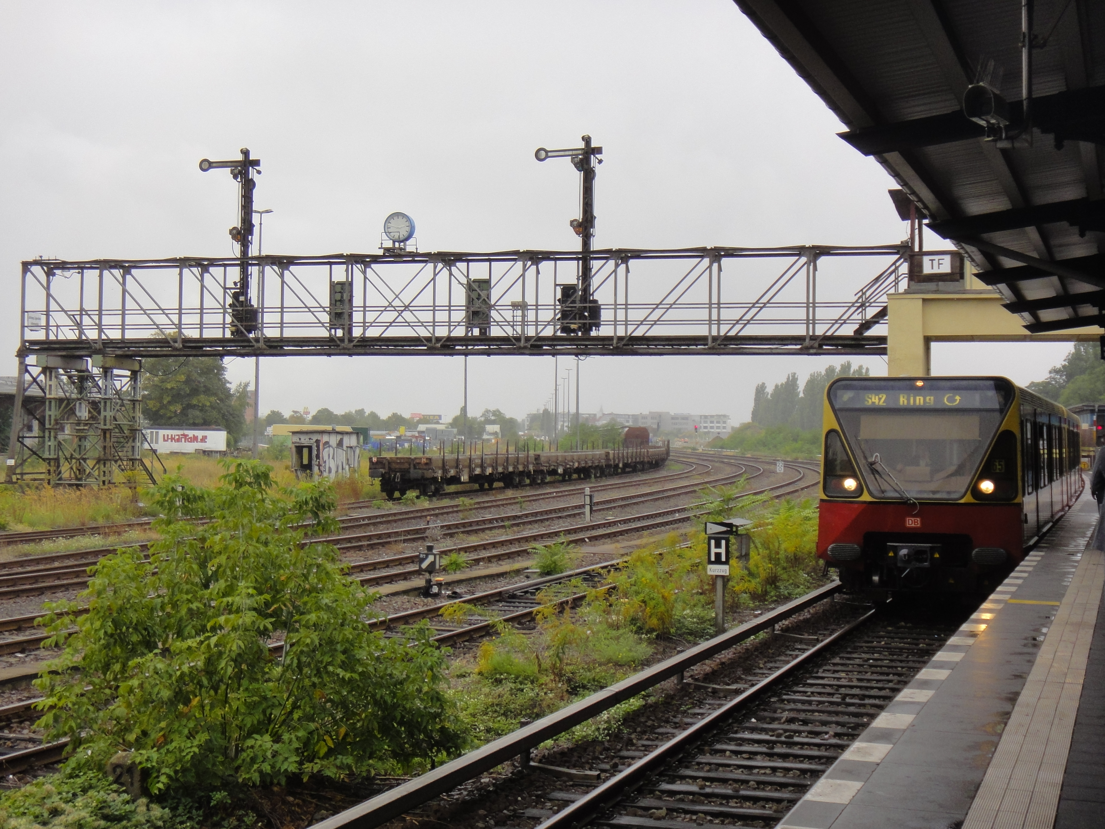 S-Bahn train arriving at S-Bahn station Berlin-Tempelhof, in the background the goods station Berlin-Tempelhof